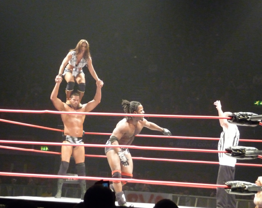 Mickie James and Matt Morgan.